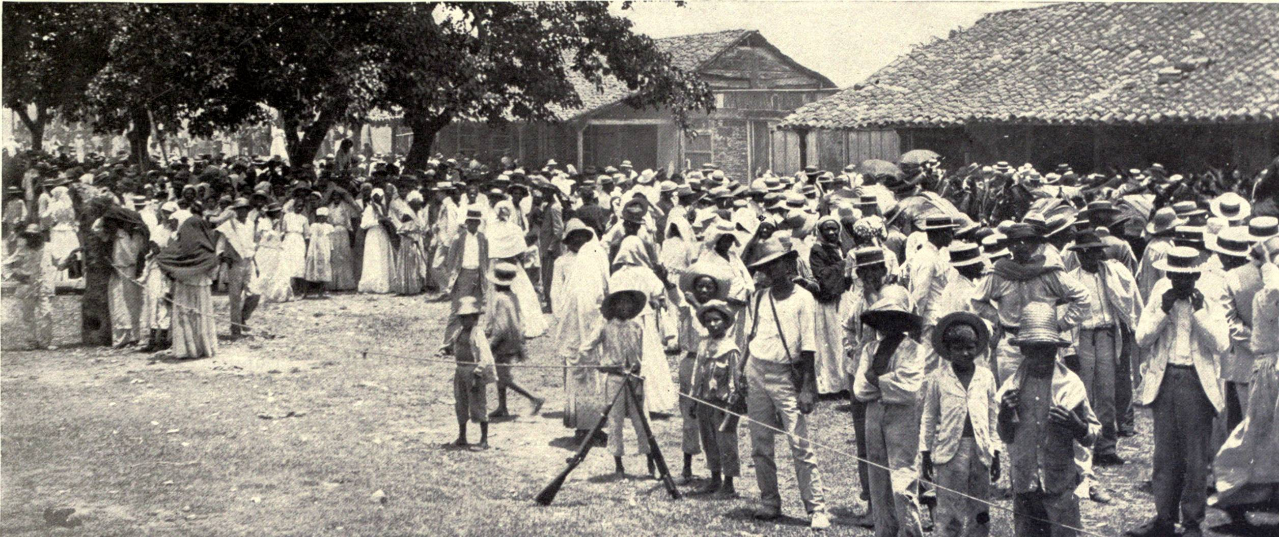 Refugees at El Caney, Cuba waiting for a distribution of food by the Red Cross. From p. 447 of Harper's Pictorial History of the War with Spain, Vol. II, published by Harper and Brothers in 1899.